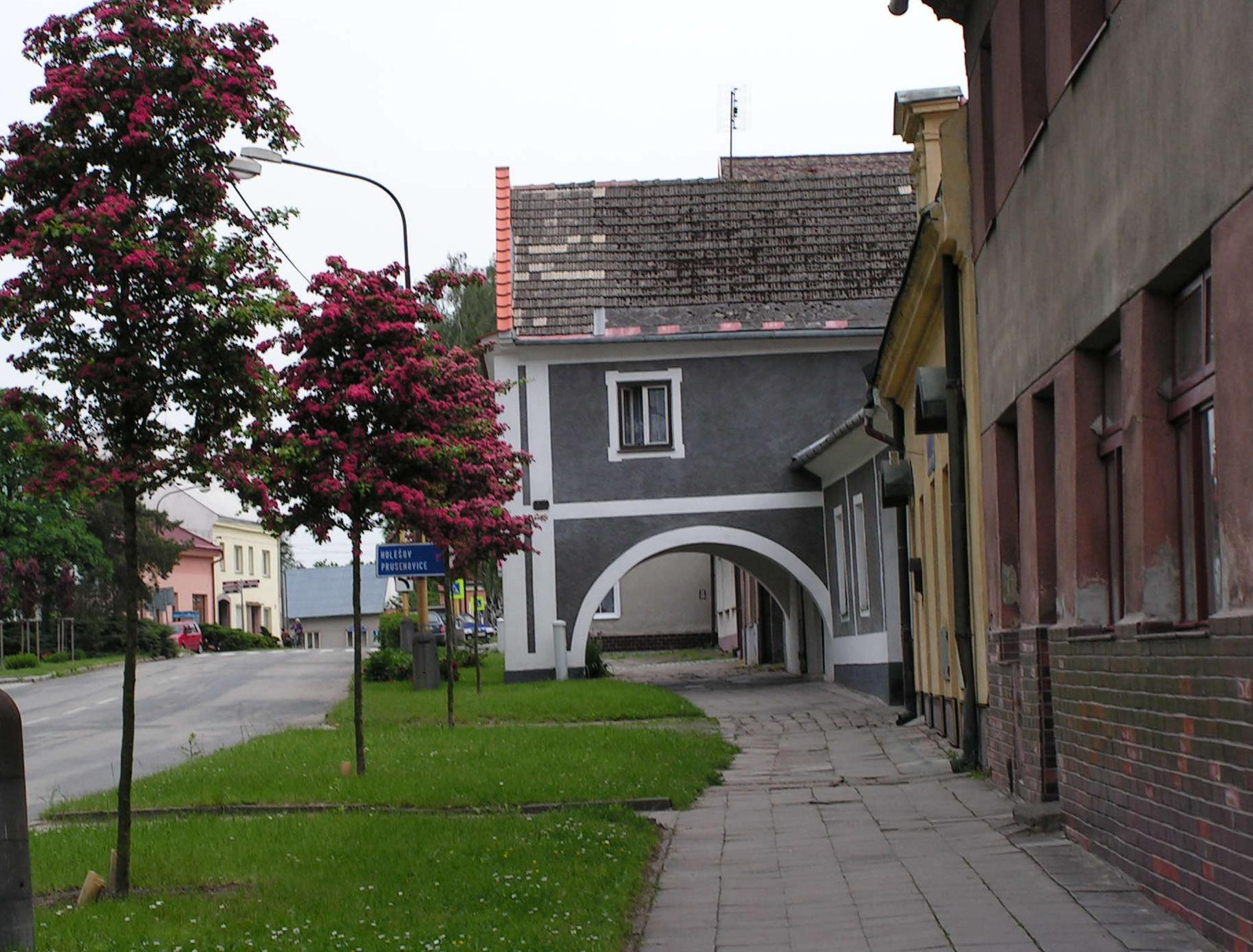 Drevohostice (Czech Republic) - house no.17, 18th century, with Crataegus laevigata 'Paul's Scarlet'